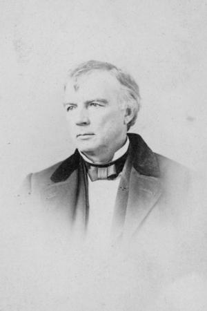 Portrait of Governor David Tod who served as governor from 1862 - 1864. The portrait was likely created after Tod left office. As a Civil War Governor, Tod oversaw the recruitment of troops, established the Ohio Military Agency to aid Ohio soldiers and called up troops to defend the state's borders from attack by the Confederate army.